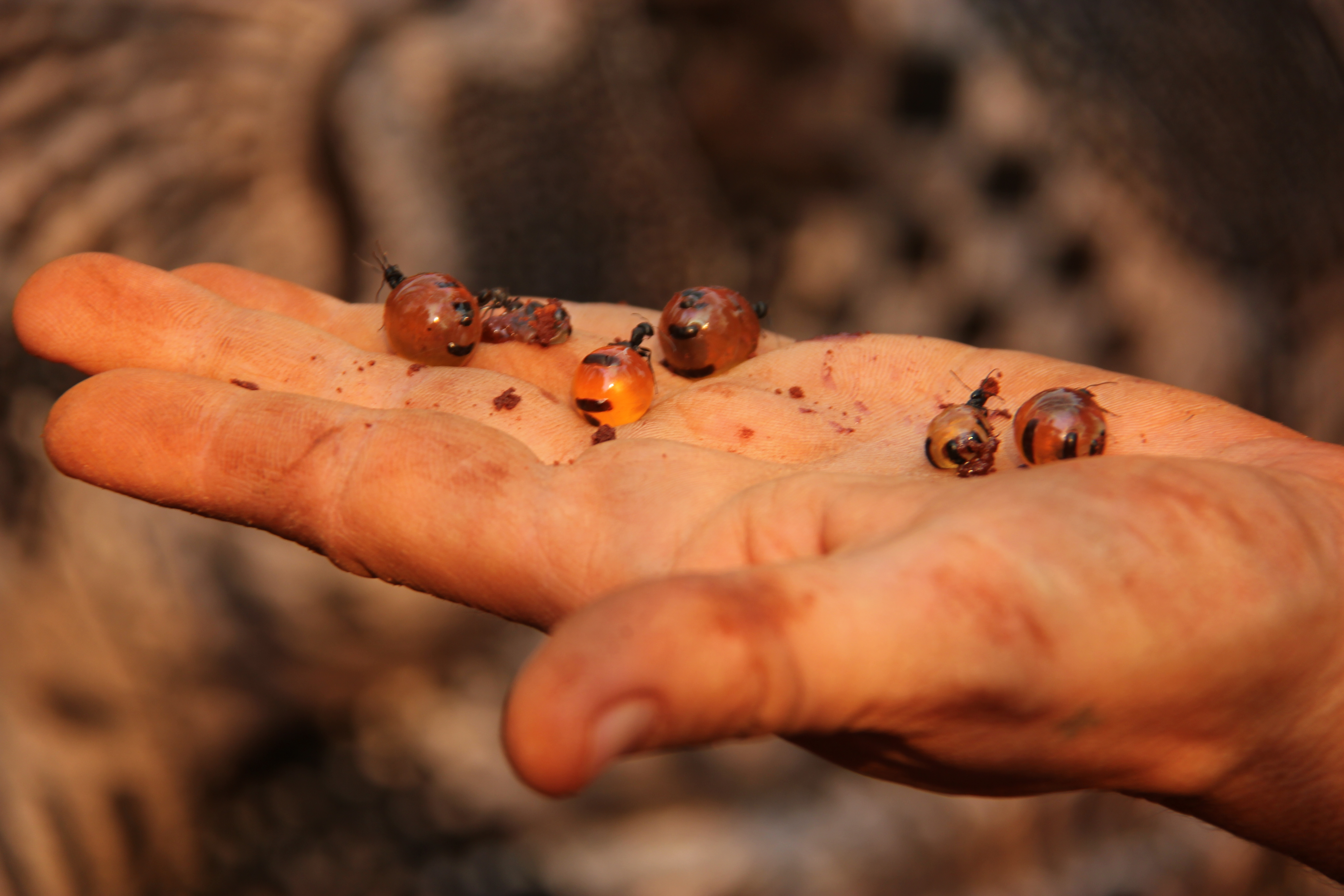 Honeypot ant.